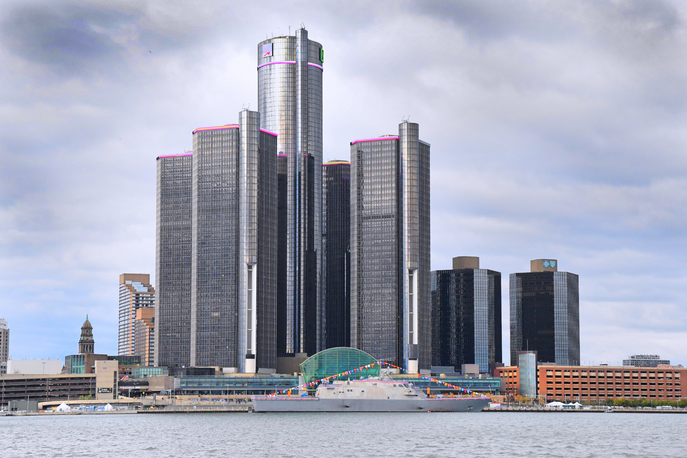 161021-N-N0101-100 WINDSOR, Ontario (Oct. 21, 2016) The future Freedom-variant littoral combat ship USS Detroit (LCS 7) is pierside on Detroit's waterfront in preparation for its commissioning on Oct. 22, 2016. LCS-7 is the sixth U.S. ship named in honor of city of Detroit. (U.S. Navy photo courtesy of Lockheed Martin/Released)